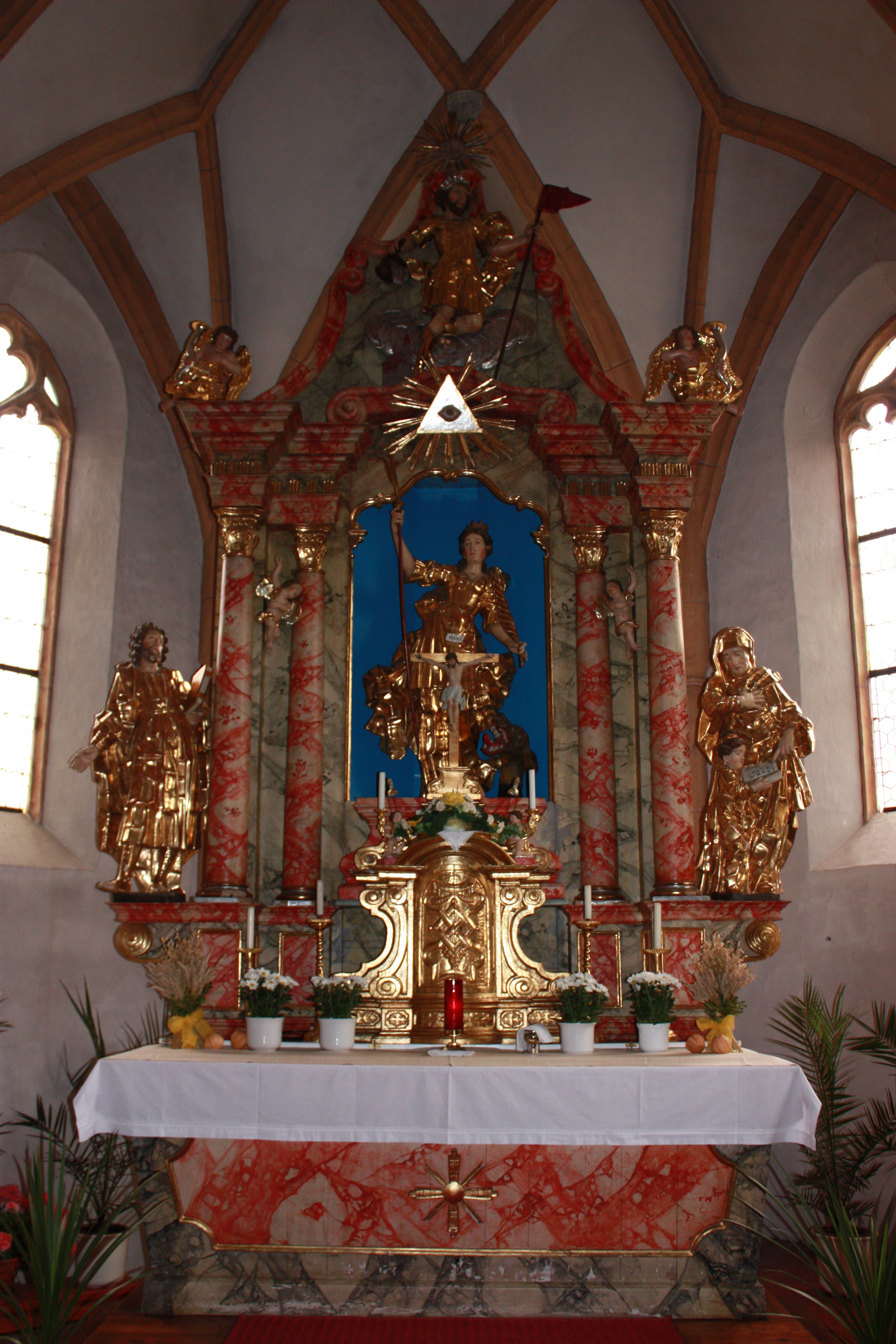 Parish church Saint Margareta - Main altar Locality: Sankt Margareten im Lavanttal Community:Wolfsberg